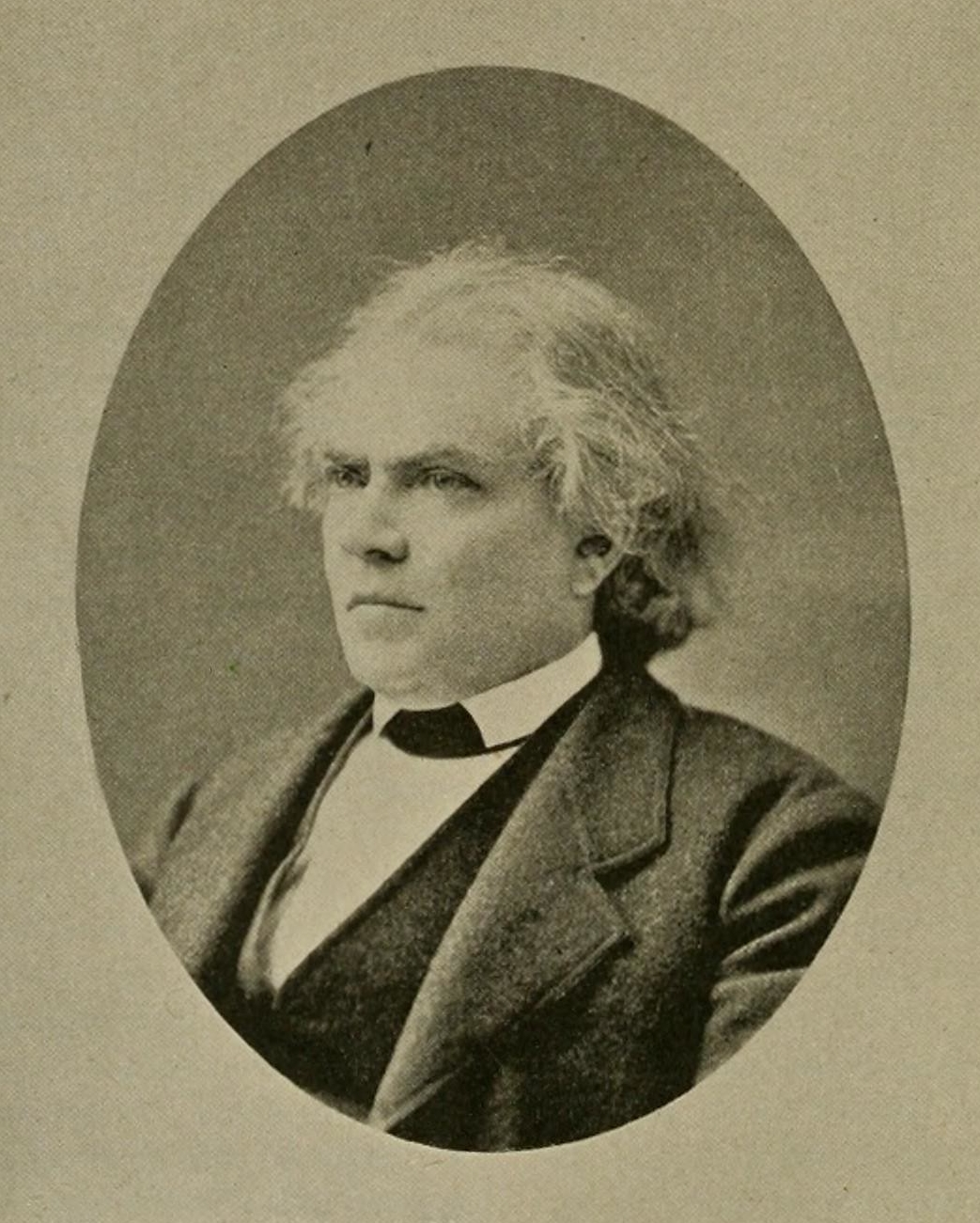 John Stephenson, a coach-builder from The street railway review by American Street Railway Association (1891).